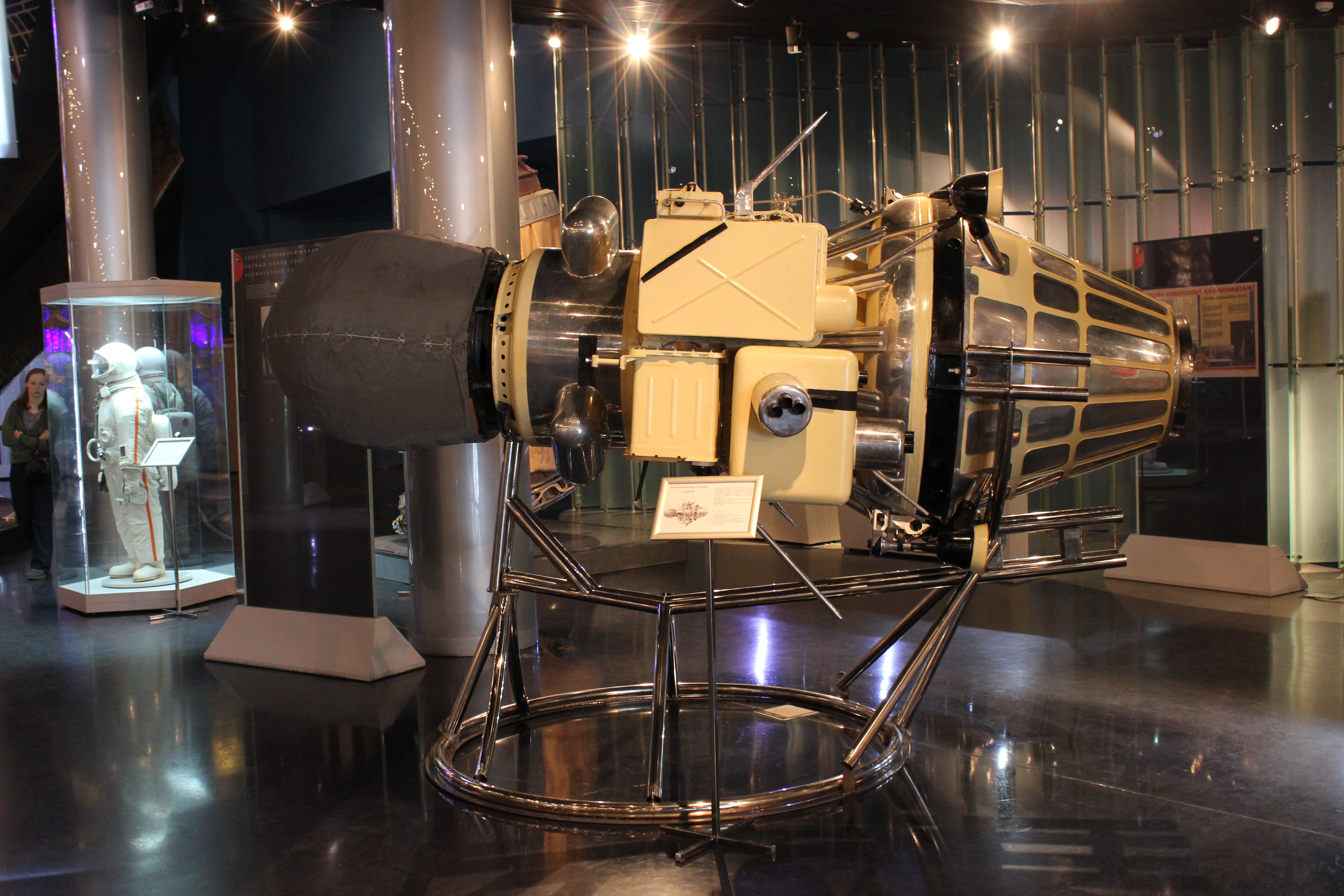 Memorial Museum of Astronautics